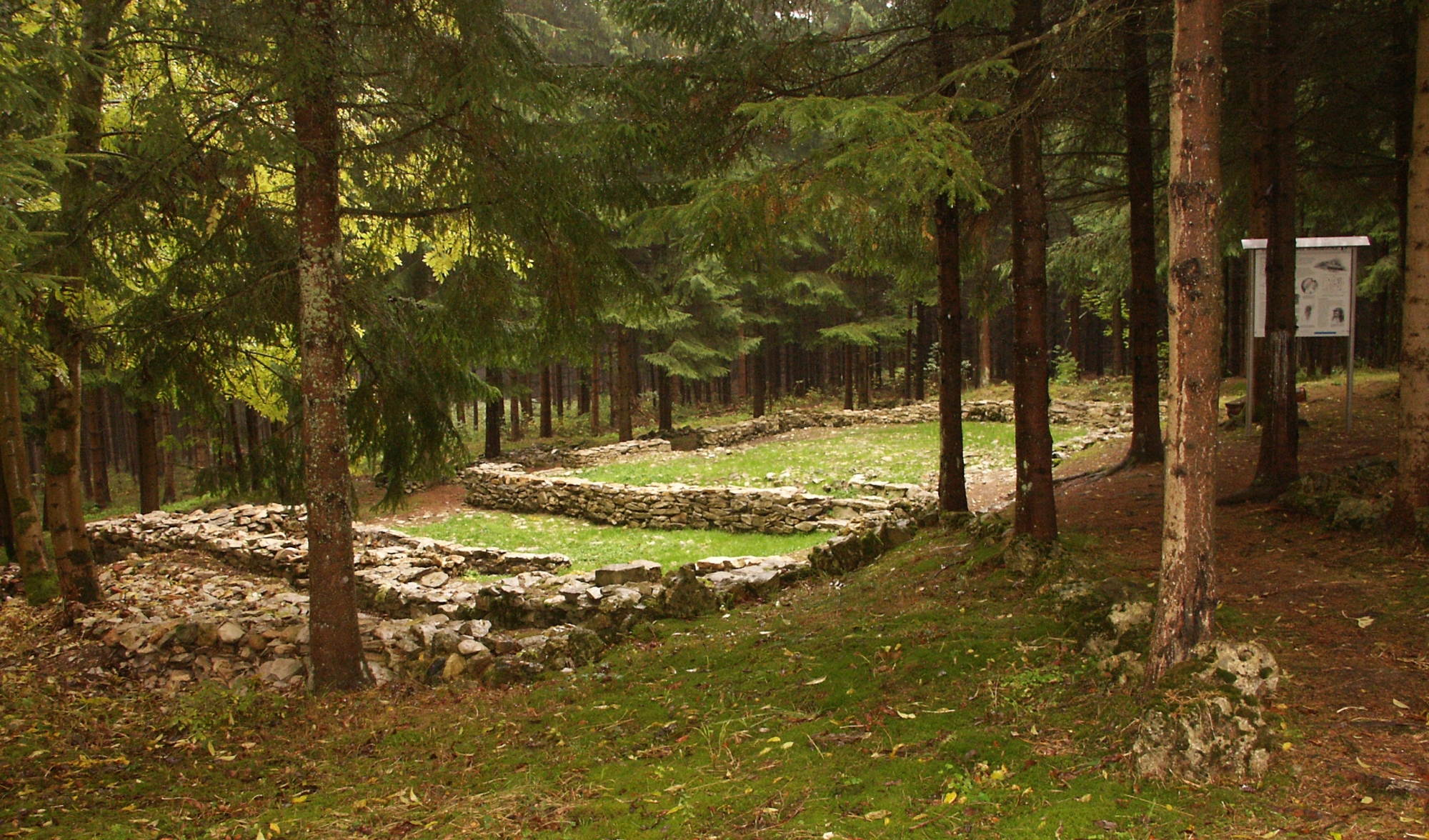 Reconstructed layout of the Bilzhaus near Oberkochen, Germany